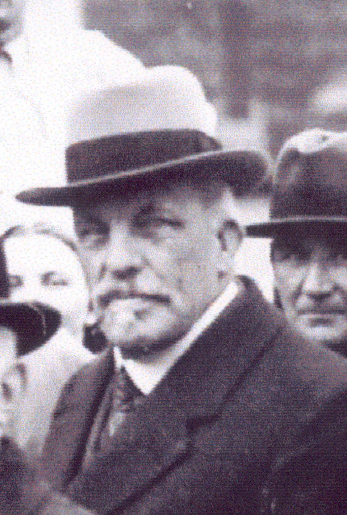 Johan Hendrik Kruseman in 1935